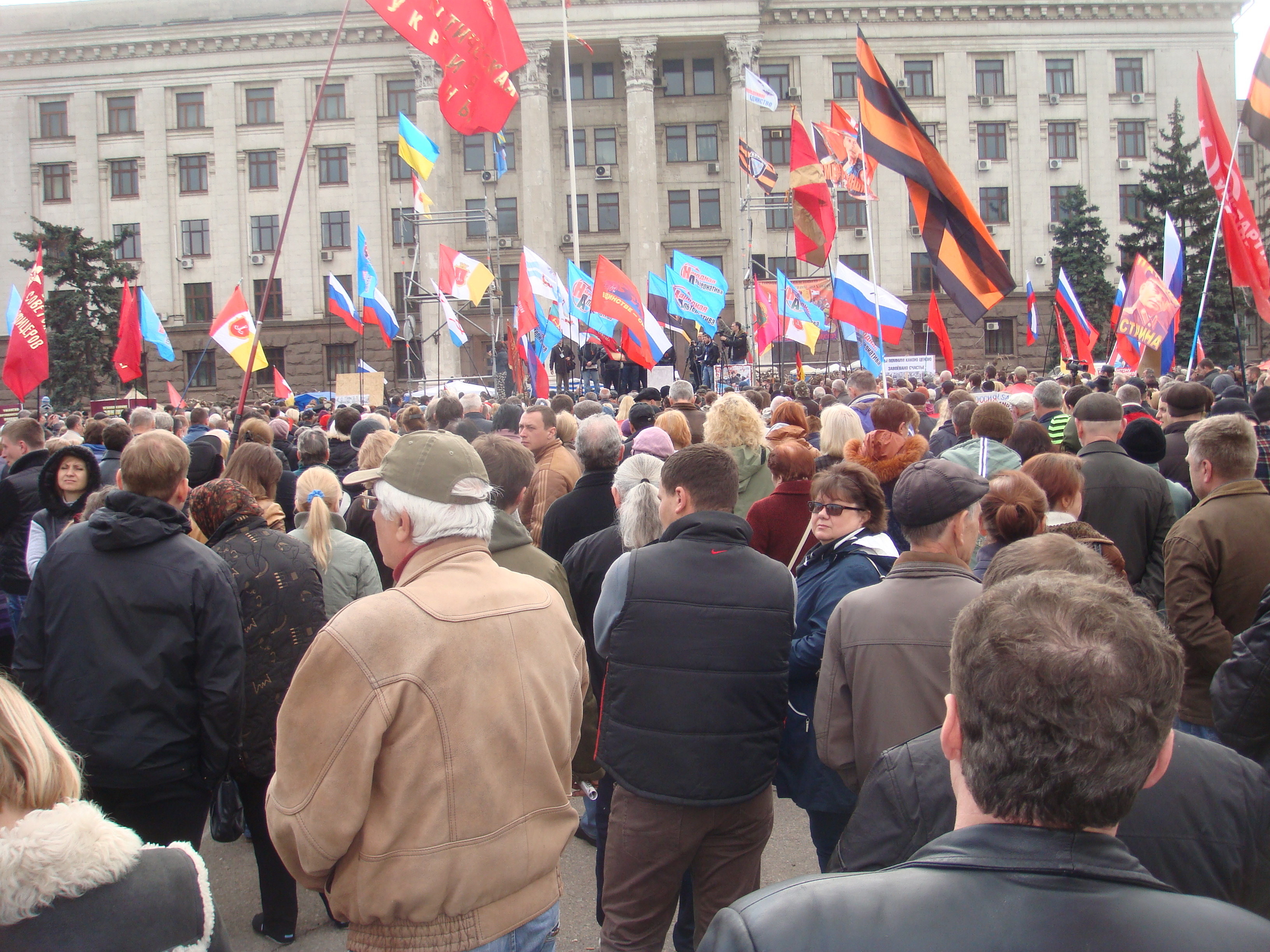 Pro-Russian meeting in Odessa on 2014-04-13.